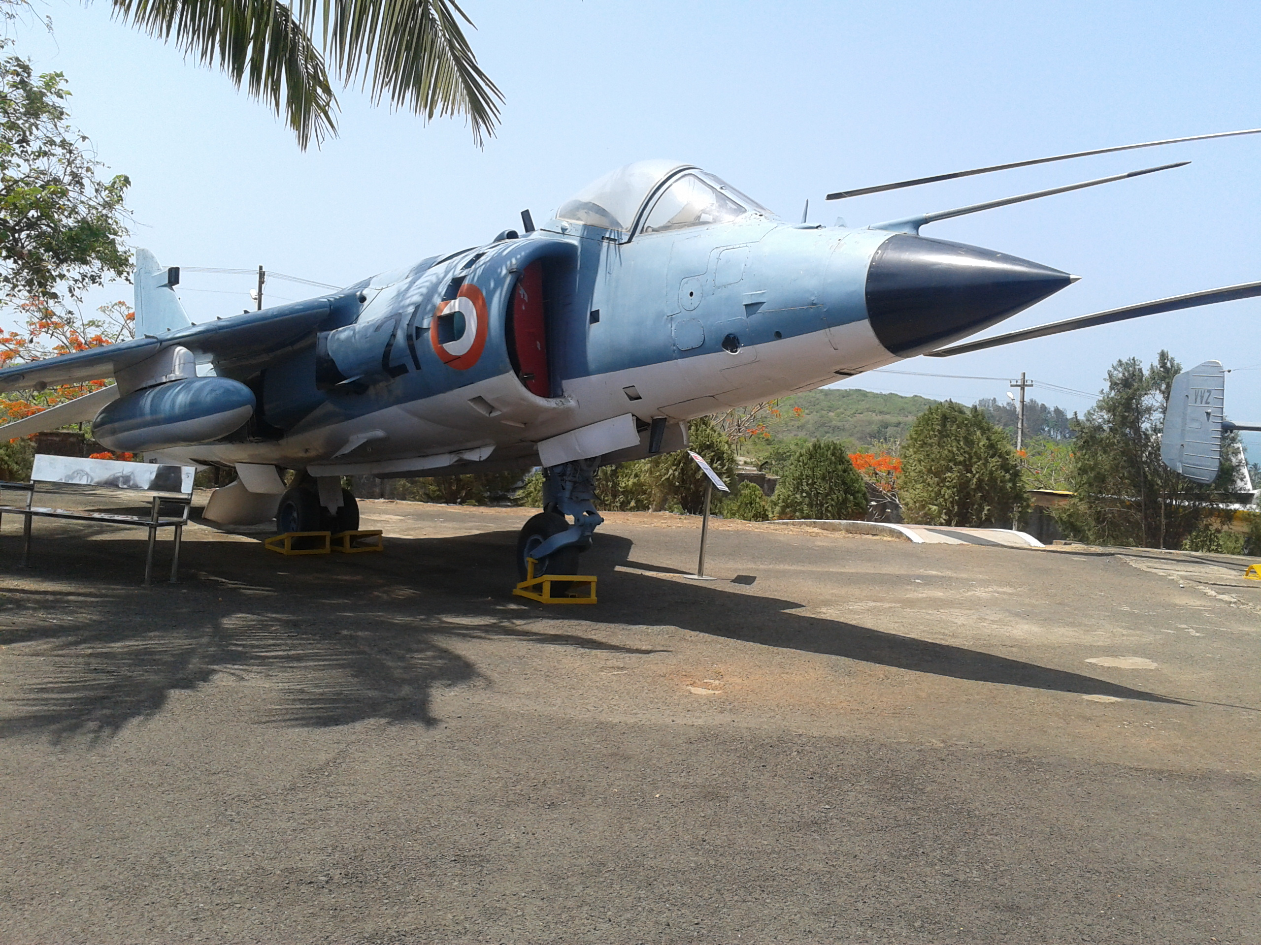 at the Naval Aviation Museum, Goa, India in May 2012